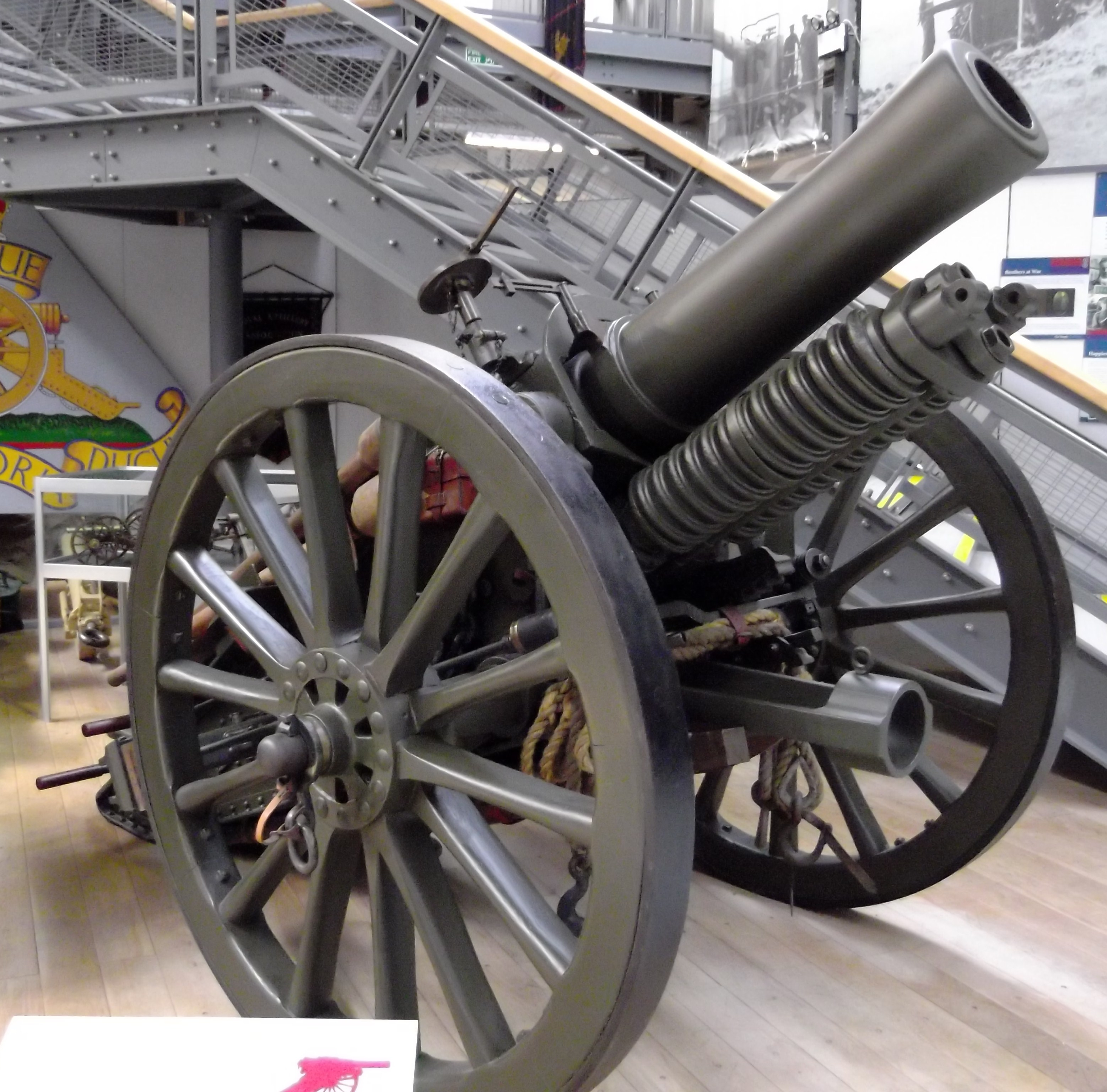 British BL 6 inch 30 cwt howitzer at Royal Artillery Museum, Woolwich London.